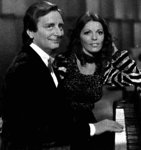 Enrico Simonetti and Valeria Fabrizi shooting an Italian TV show